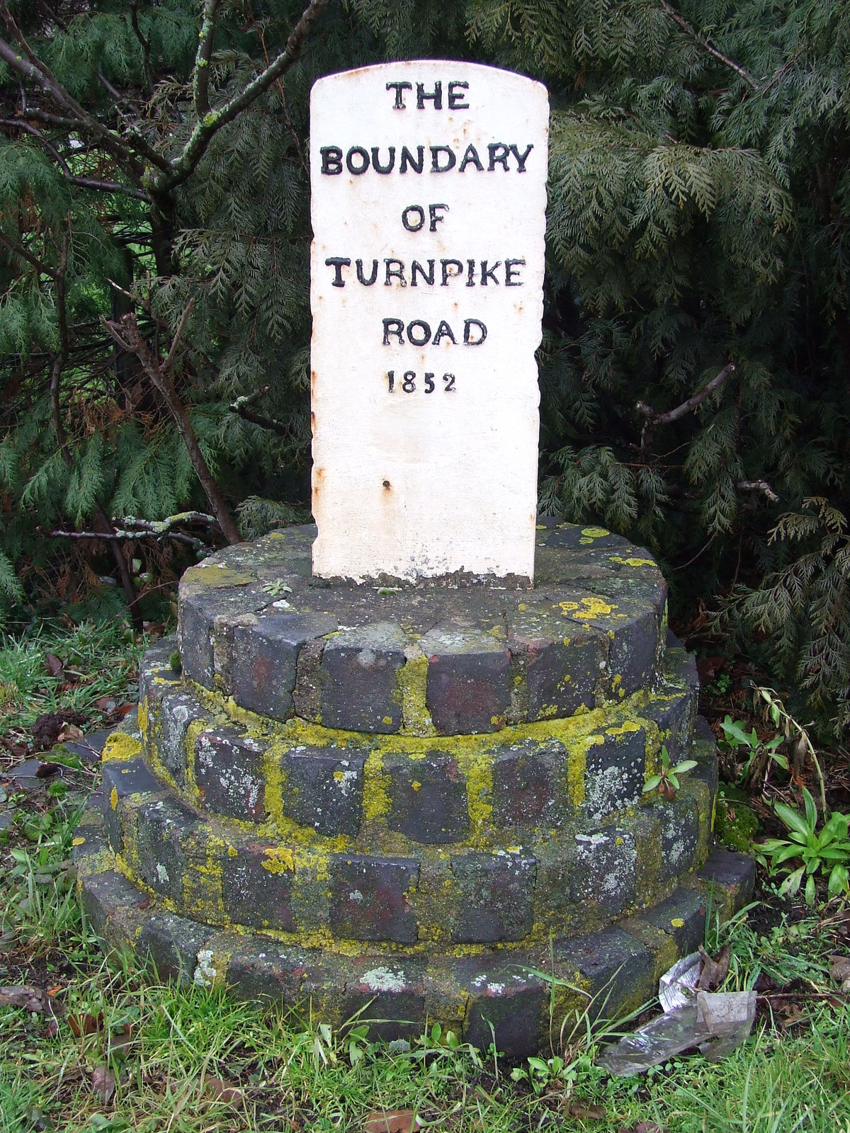 Boundary Marker. Boundary marker of the Turnpike Road Ely, Cambridgeshire for overall view see 1714443